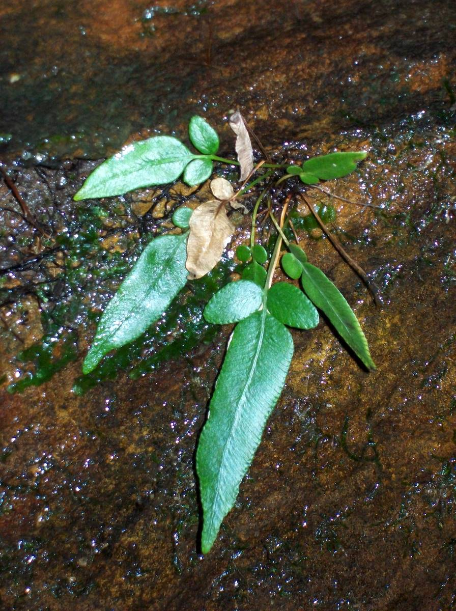 Waterfall plant Elvina Bay Ku-ring-gai Chase, ID by the Royal Botanic Gardens Sydney as most likely Blechnum ambiguum